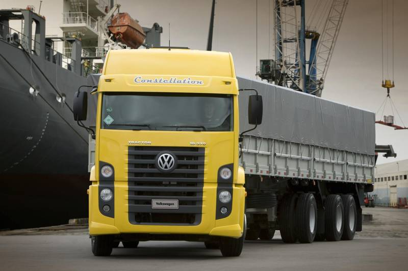 MAN Latin America VW Constellation.